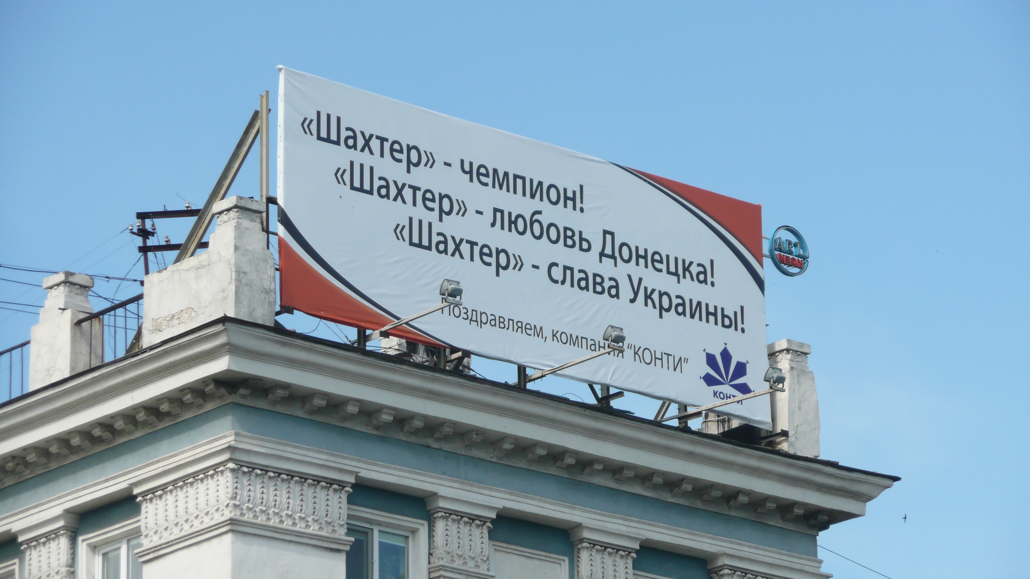 Advertisement for FC Shakhtar Donetsk in Donetsk